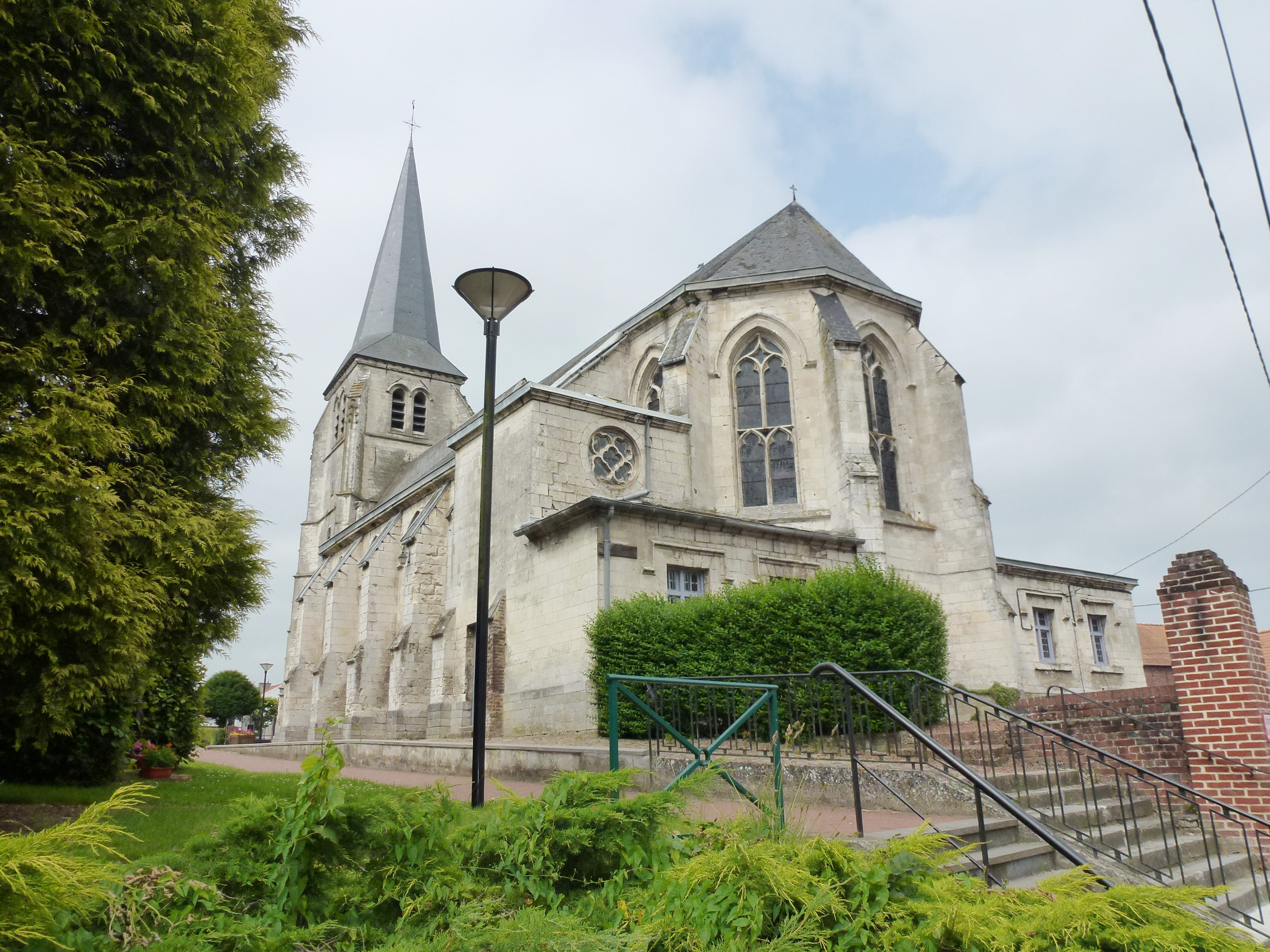 Amettes (Pas-de-Calais, Fr) église Saint-Sulpice